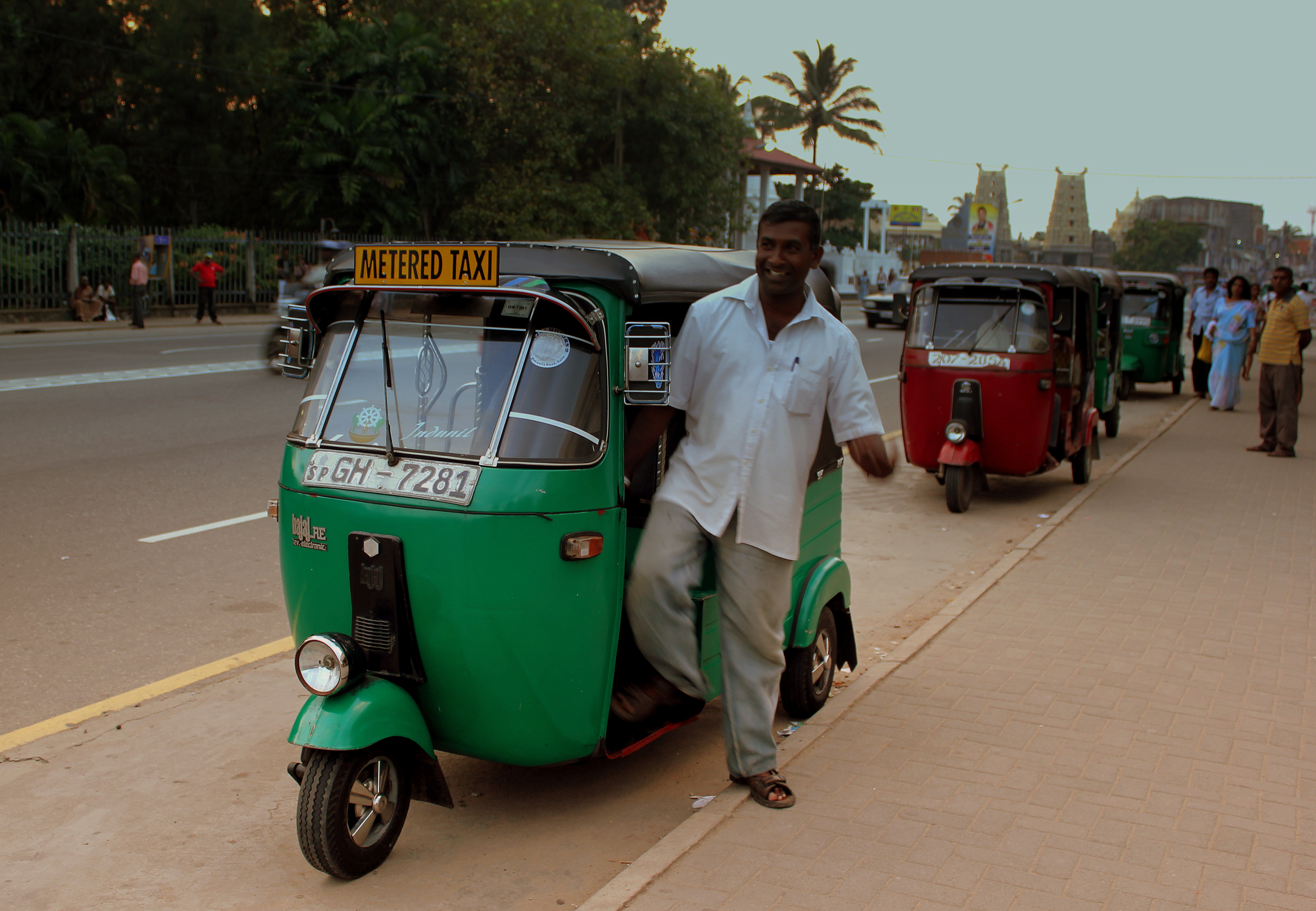 GALLE TUK TUK AND DRIVER GALLE SRI LANKA JAN 2013